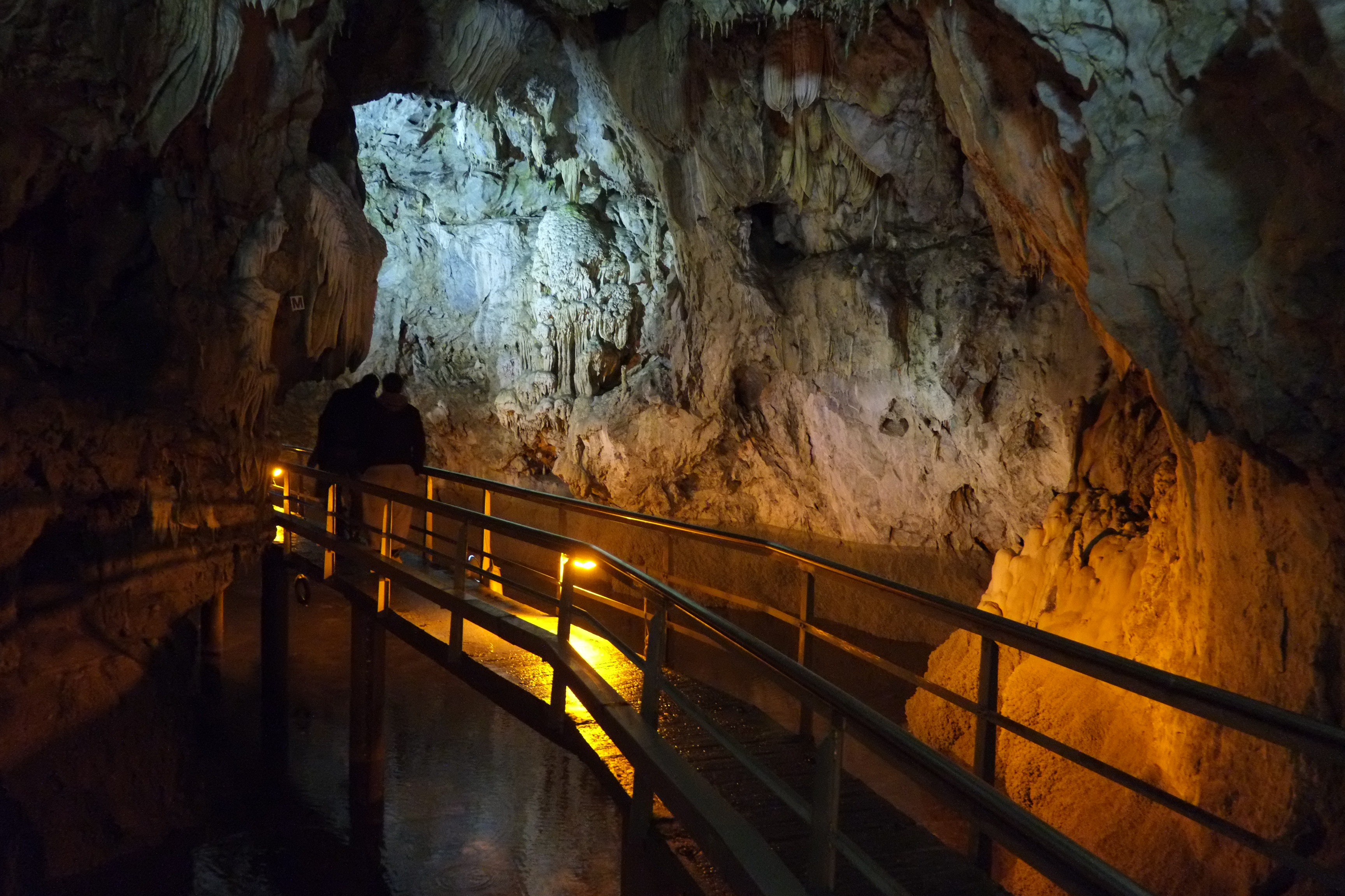 lake cave